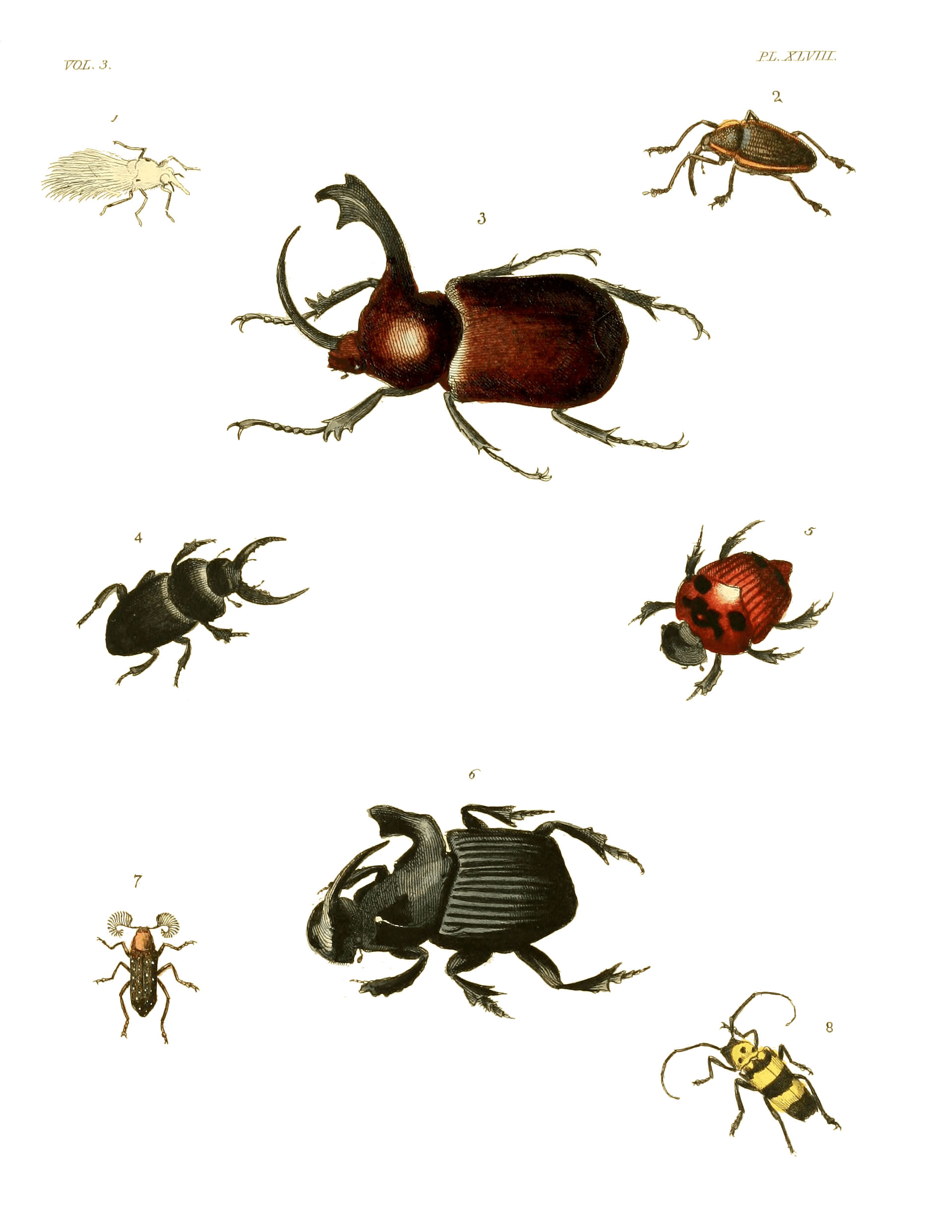 Plate XLVIII. 1. FLATA ---- (pupa?) (current synonymy uncertain) 2. CHOLUS URBANUS (= Cholus cinctus) 3. DYNASTES CLAVIGER (= Golofa claviger). 4. HISTER (OXYSTERNUS) MAXIMUS (= Oxysternus maximus). 5. PHANÆUS FESTIVUS ♀ (= Oxysternon festivum). 6. COPRIS FAUNUS (= Sulcophanaeus faunus). 7. RHIPICERA DRURÆI (= Rhipicera mystacina ). 8. SAPERDA SPECTABILIS (= Oedudes spectabilis).